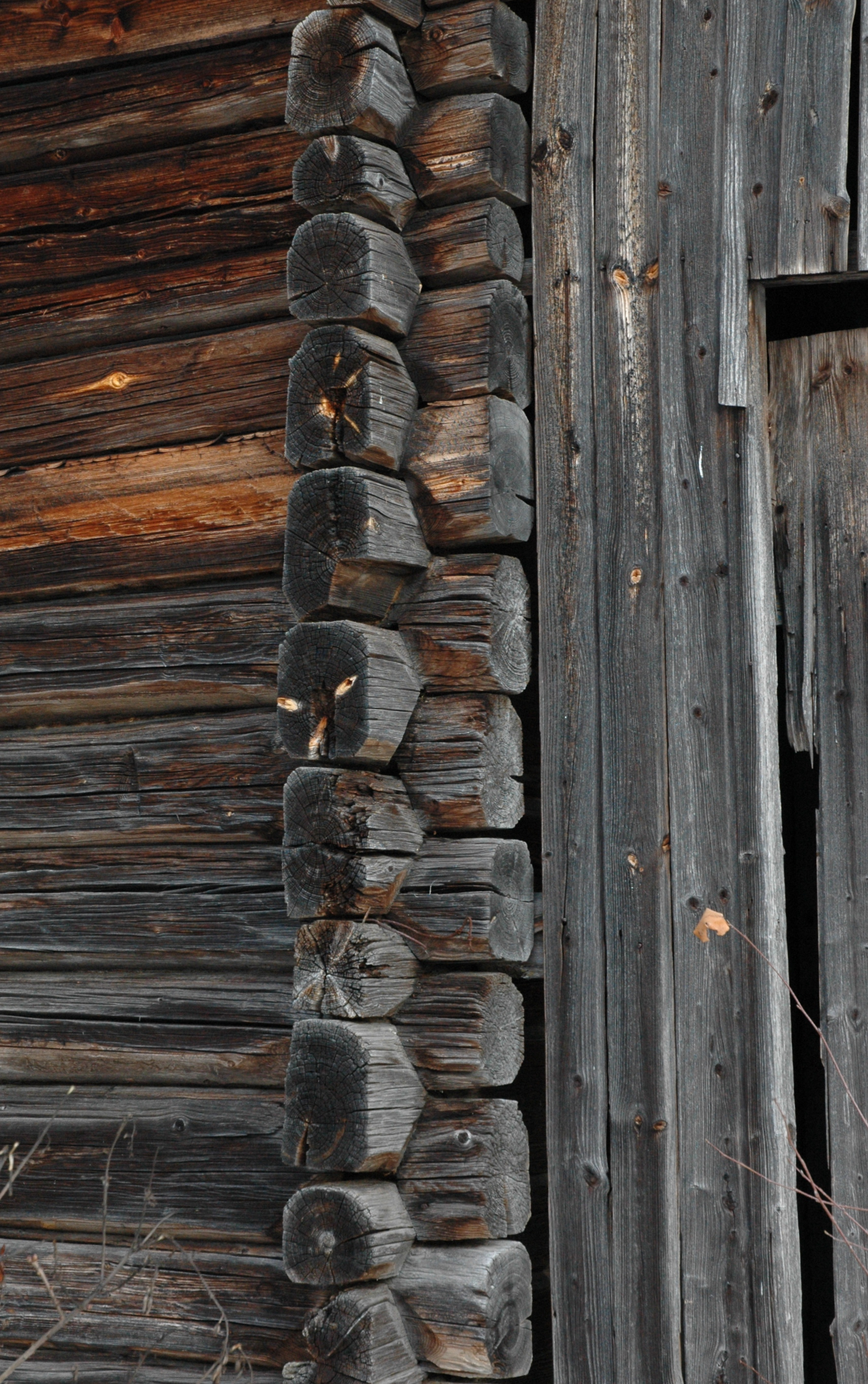 Corner of timber building in Odalen, Norway. Probably built before 1900. My own photography, Kjetil Lenes.